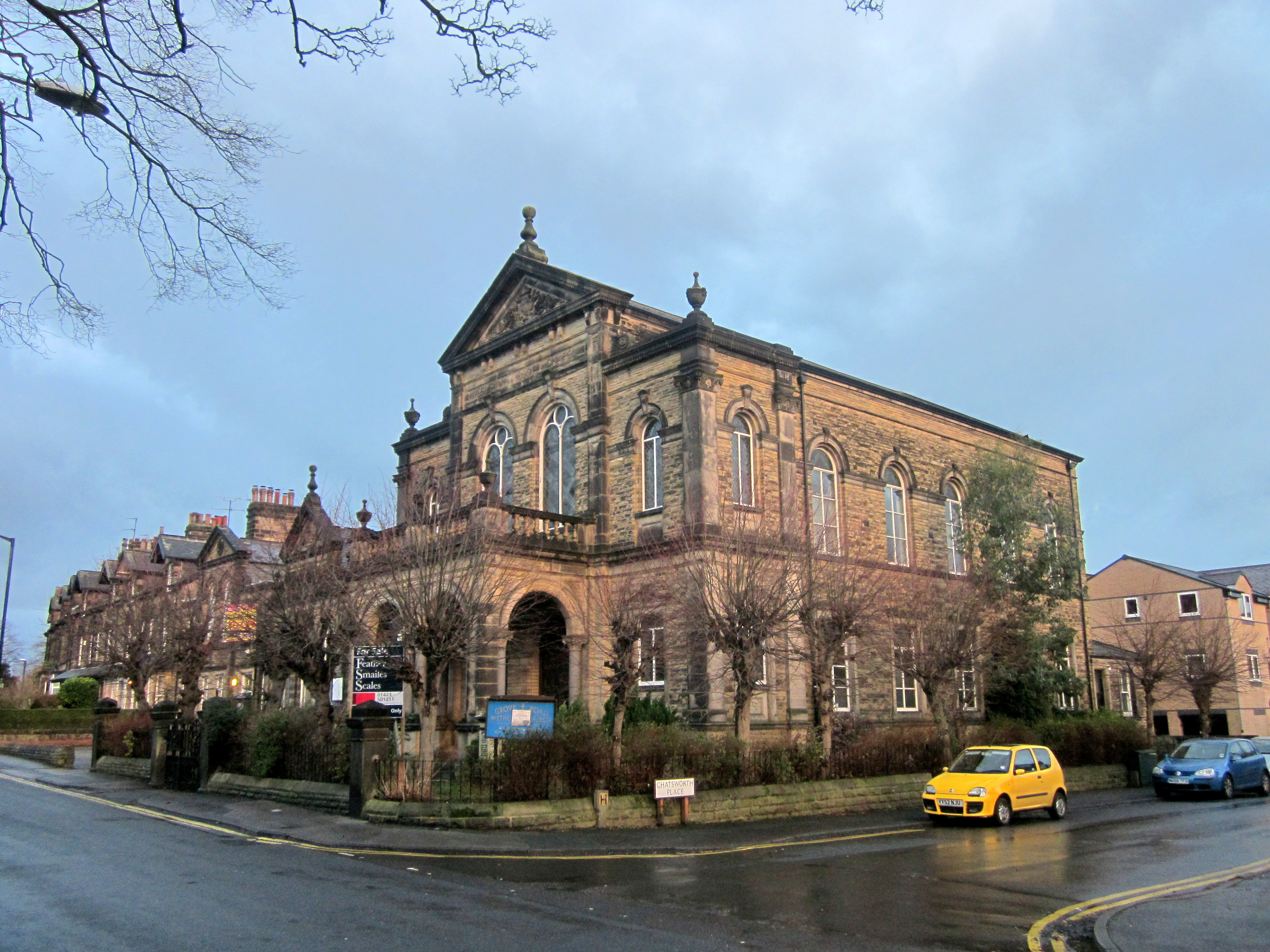 Grove Road Methodist Church